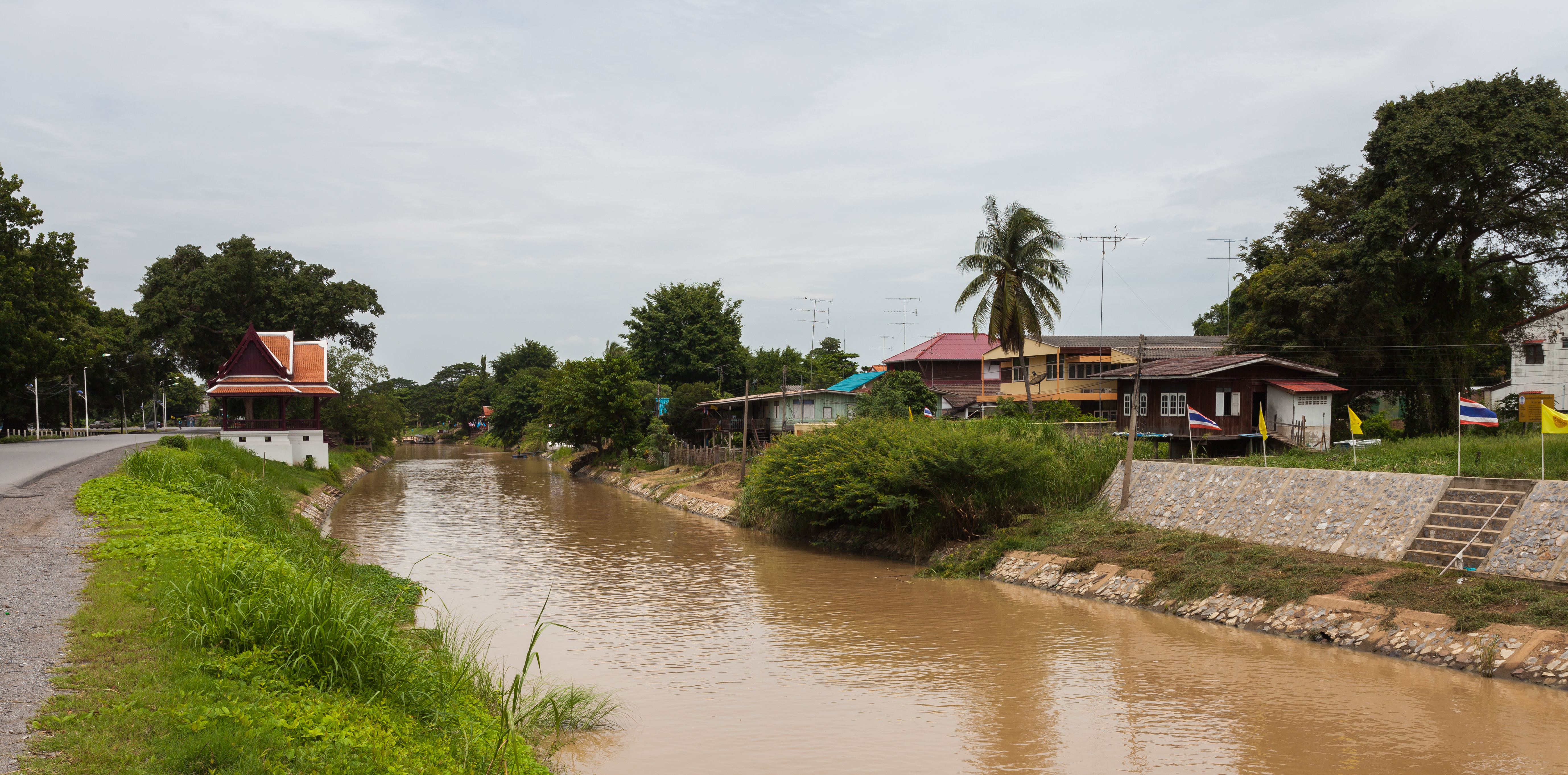 Khlong Tho St., Wat Chang, Ayutthaya, Thailand